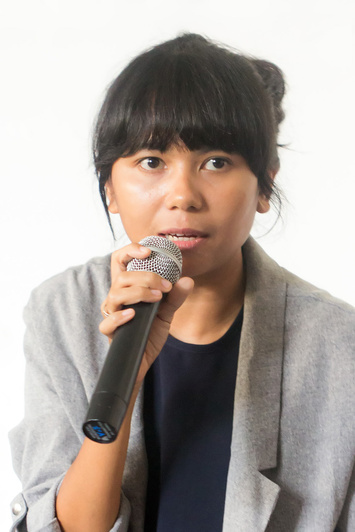 Indonesian film director Kamila Andini at the Indonesia-Germany Institute in Yogyakarta 2018-02-14